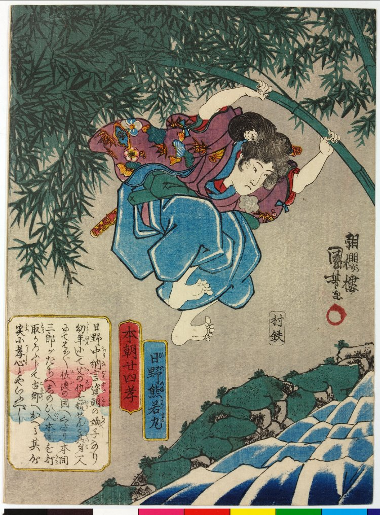 Twenty-four Paragons of Filial Piety of Our Country (Hino Kumawaka-maru Honchô nijûshi-kô) . Scene: Hino Kumawaka Maru training to avenge his father by swinging across a stream on a bamboo. Publisher: Mura-Tetsu.